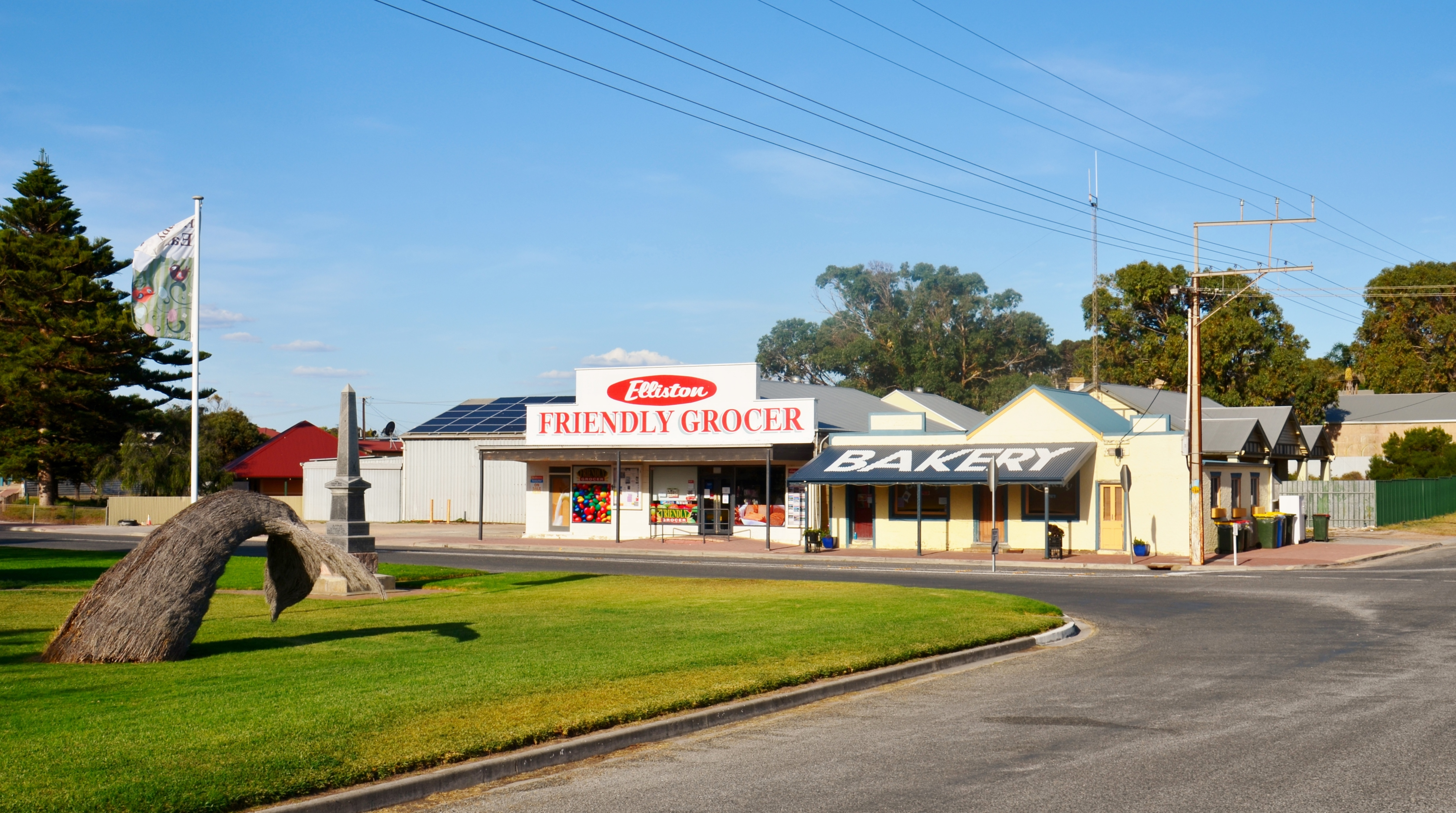 View of the Elliston Friendly Grocer and Elliston Bakery, Elliston, South Australia